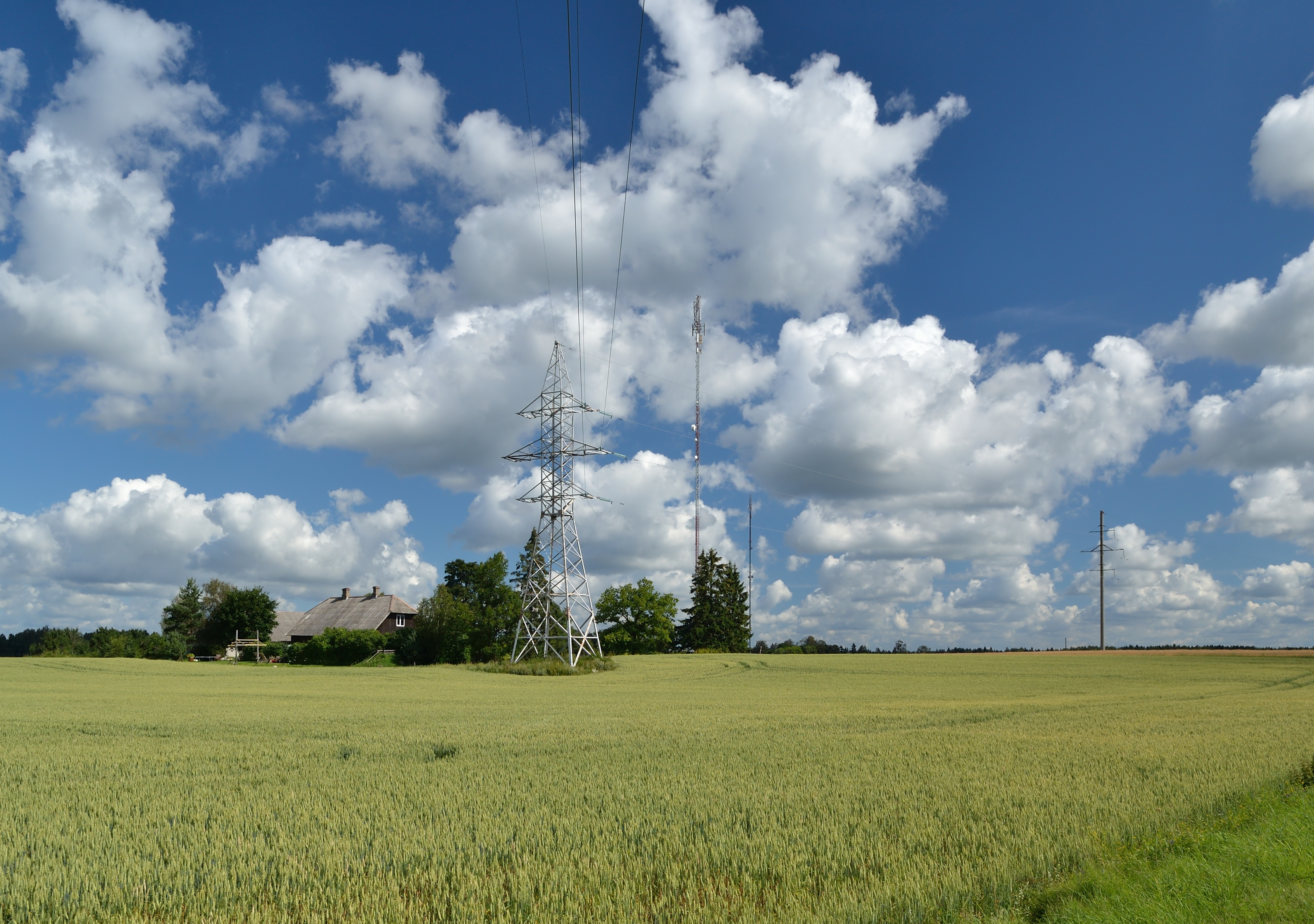 Wheat field in Kose